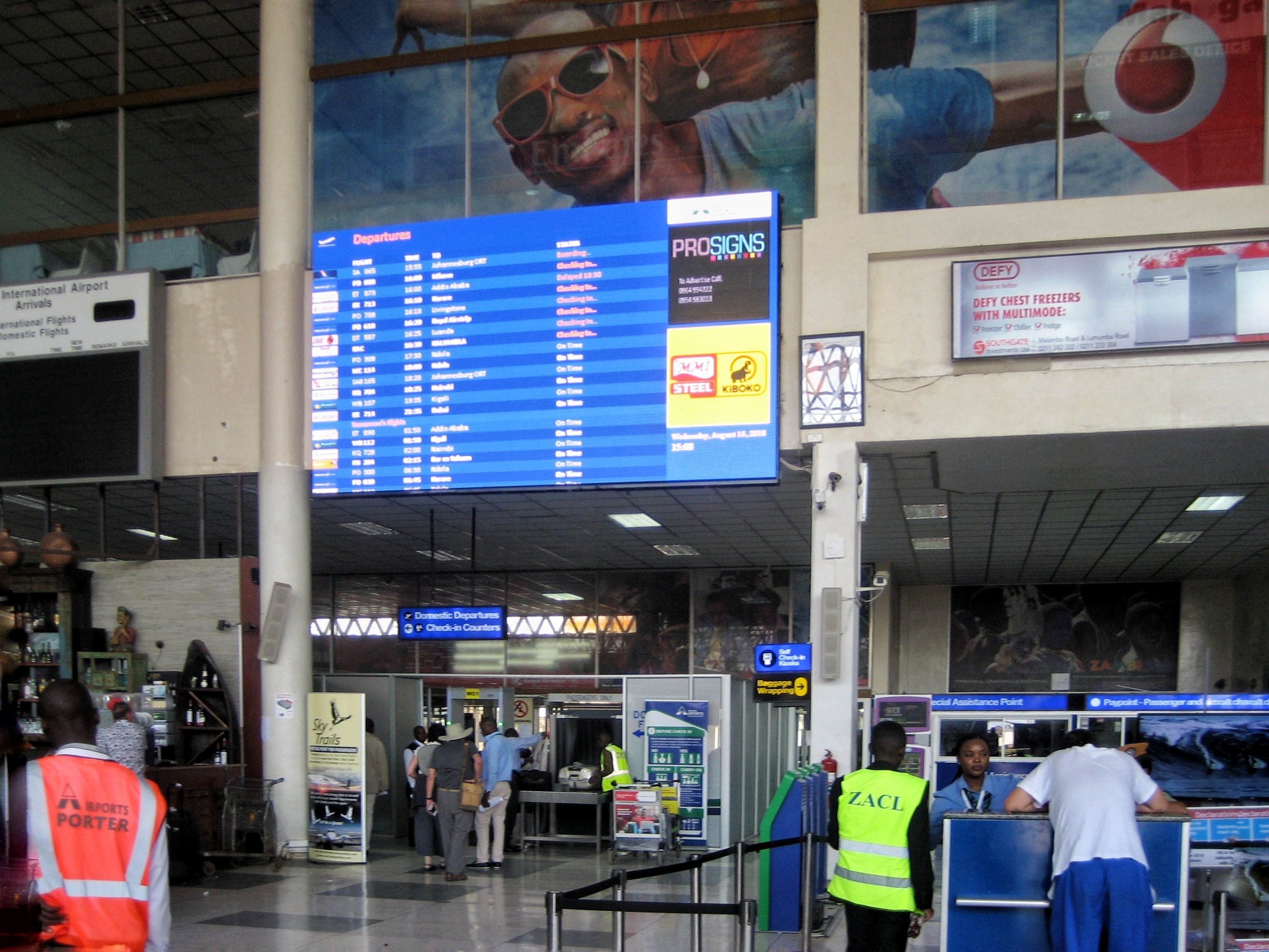 Kenneth Kaunda International Airport in Lusaka This is an image with the theme "Africa on the Move or Transport" from: Zambia